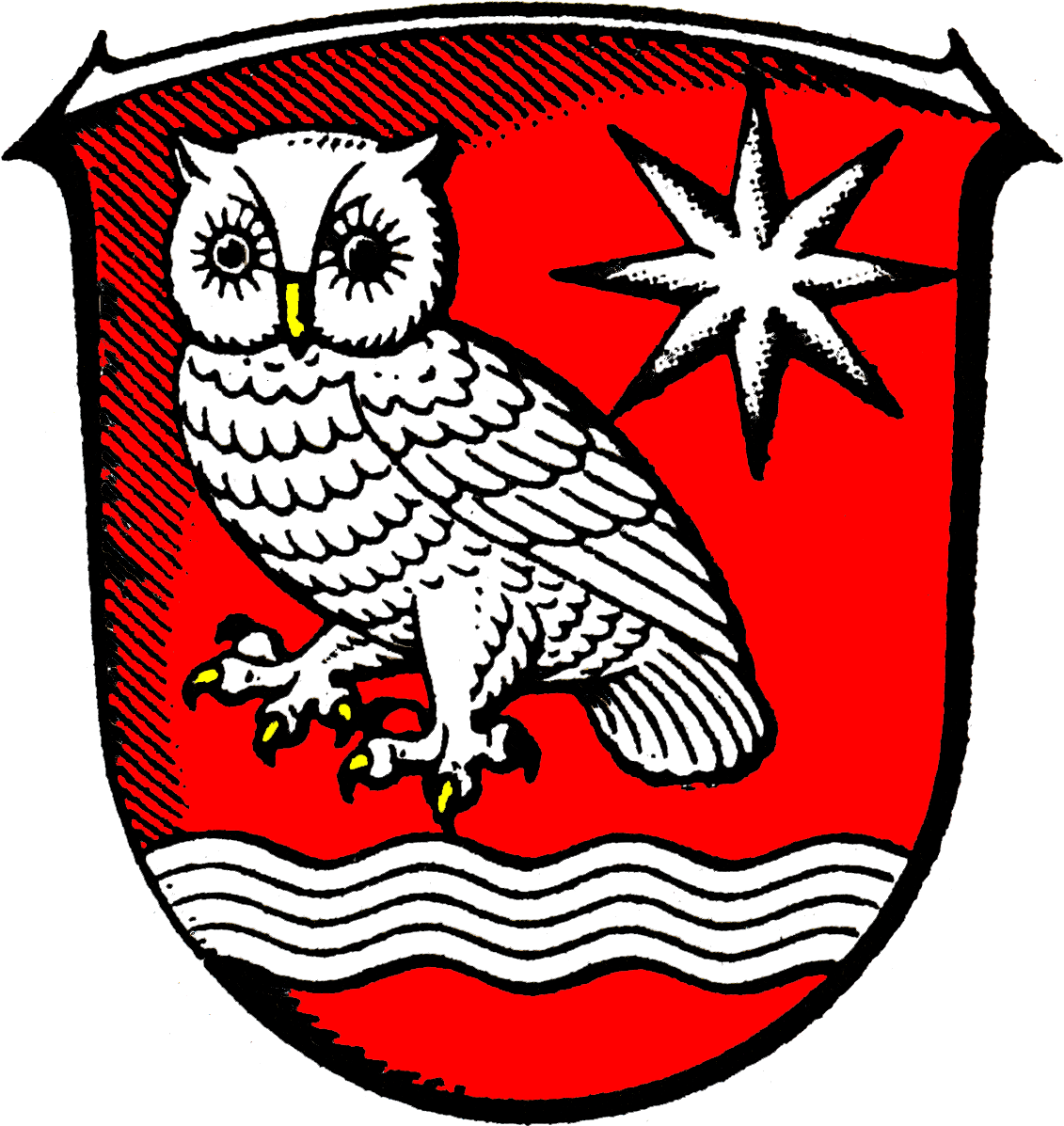 Coat of Arms of Niederaula